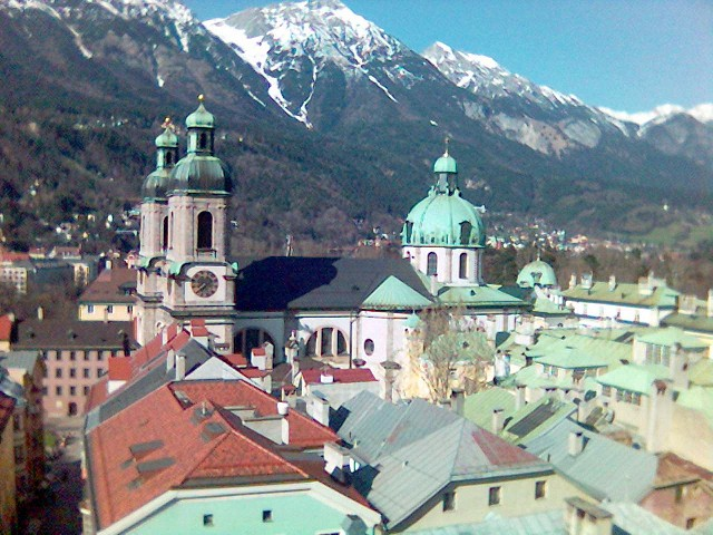 Innsbruck - view over the city from the tower. In the left: the towers of "Saint Jacob" Cathedral